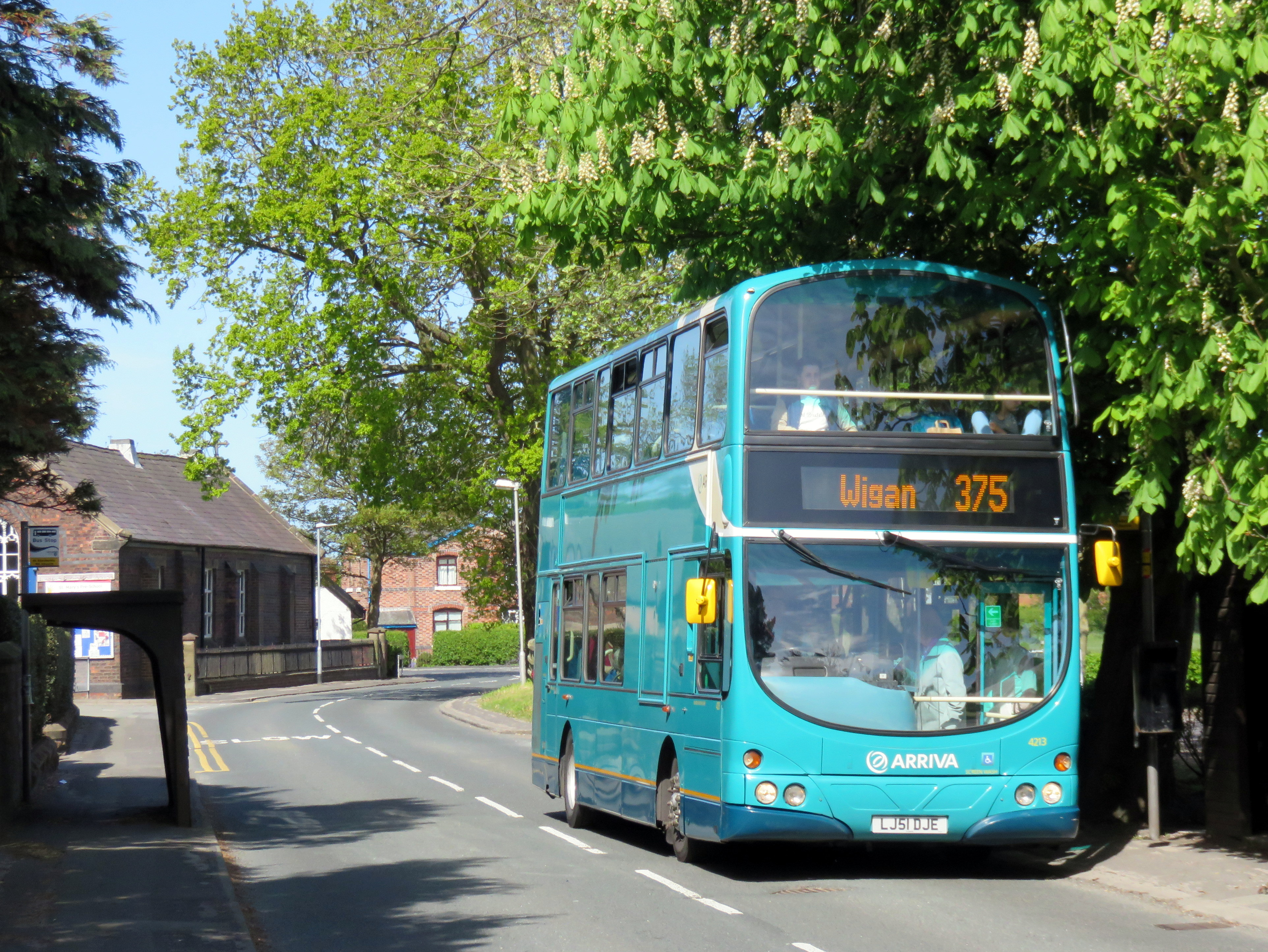 375 bus service from Southport to Wigan, operated by Arriva North West, stopped at St Elizabeth's Church in Scarisbrick.